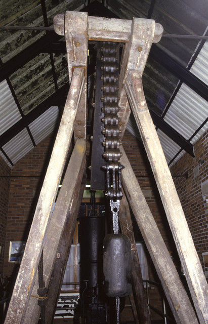 Newcomen Engine, Dartmouth Dartmouth was home to Thomas Newcomen, inventor of the atmospheric steam engine and this example is preserved in his home town as a permanent memorial. It came from the standing pump house at Hawksbury Junction. In my opinion (and I'm not alone), Newcomen is the inventor of the steam engine and Watt an improver (although on a massive scale). However, I've heard at least one pub quiz master give Trevithick as the inventor of the steam engine (rule one - the quiz master is always right; rule two - when he's wrong, see rule one).